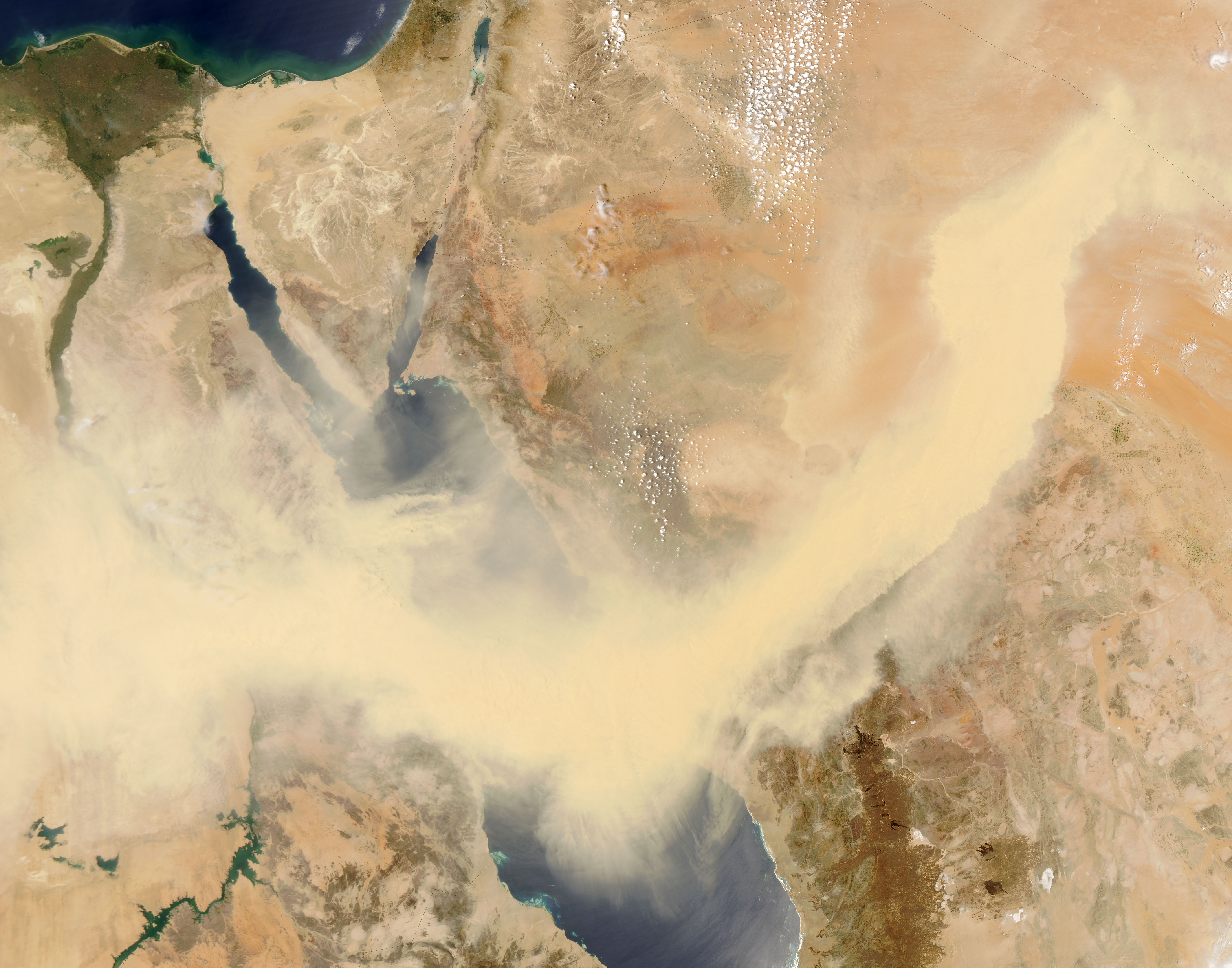 A thick band of dust snaking across the Red Sea between Egypt and Saudi Arabia on May 13, 2005.